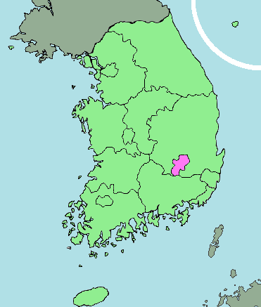 area map of Daegu